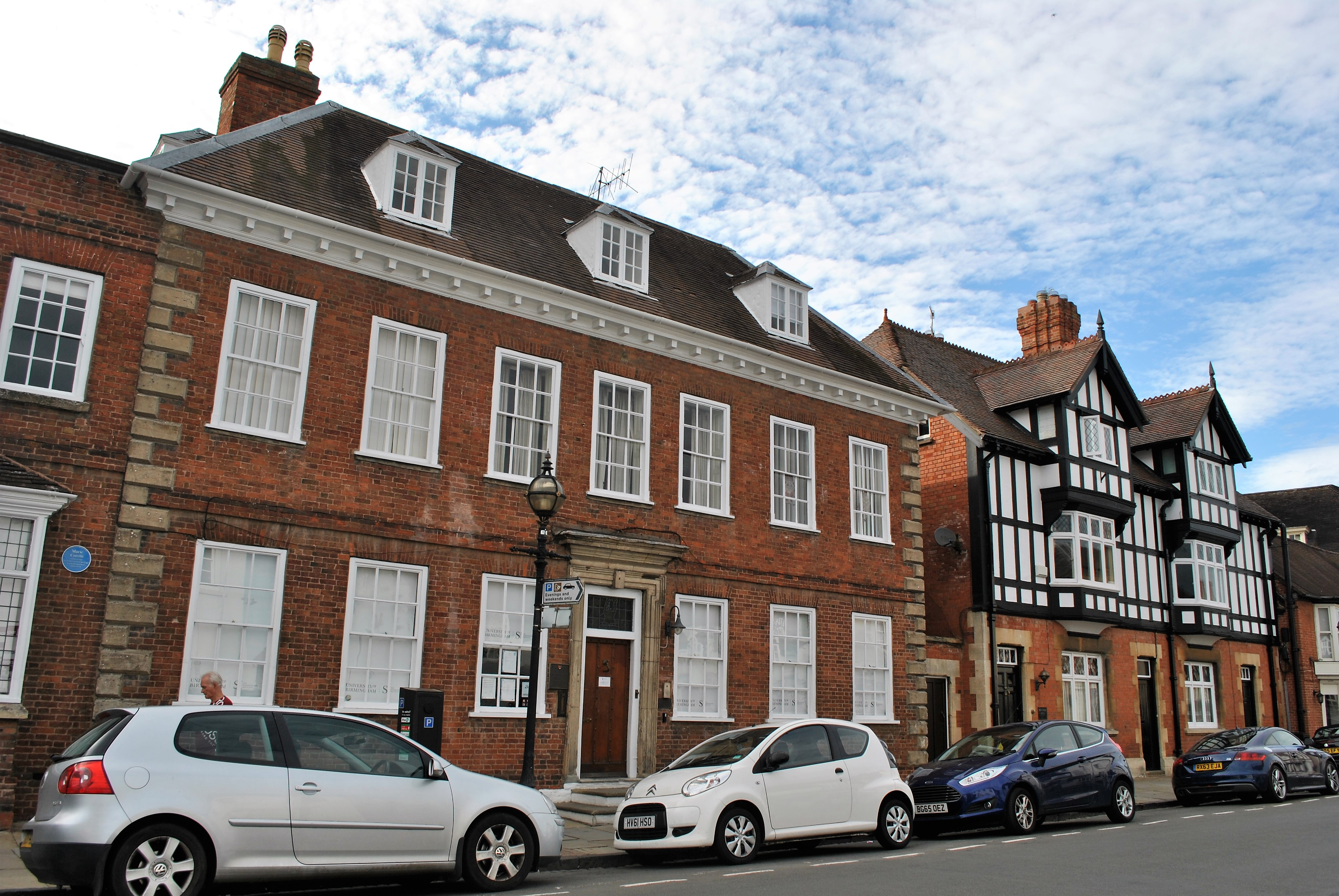 Marie Corelli, Novelist and protector of local heritage, lived and died here, 1901-1924